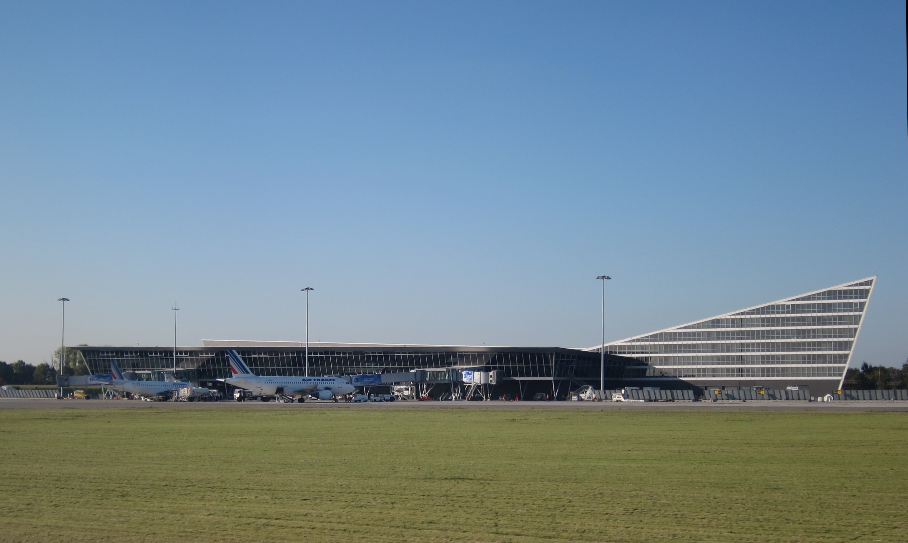 The main terminal of the Lille Lesquin International Airport (LIL).